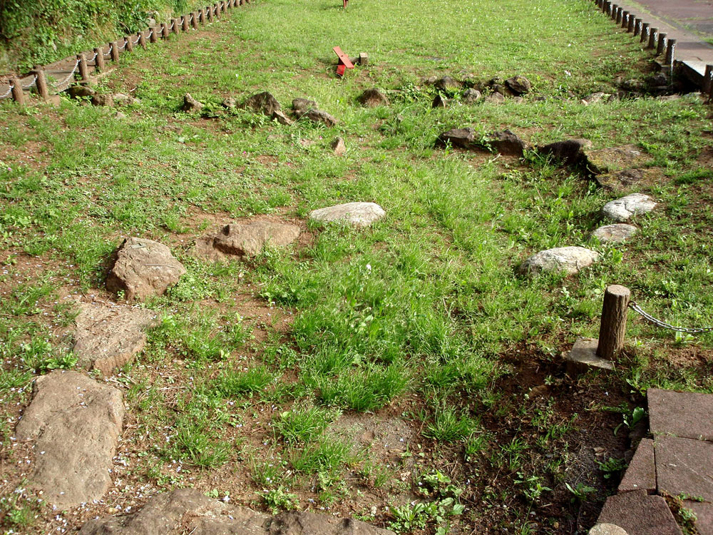 A slip scar of the Tanna fault by 1930 North Izu earthquake in Kannami, Shizuoka Prefecture, Japan.